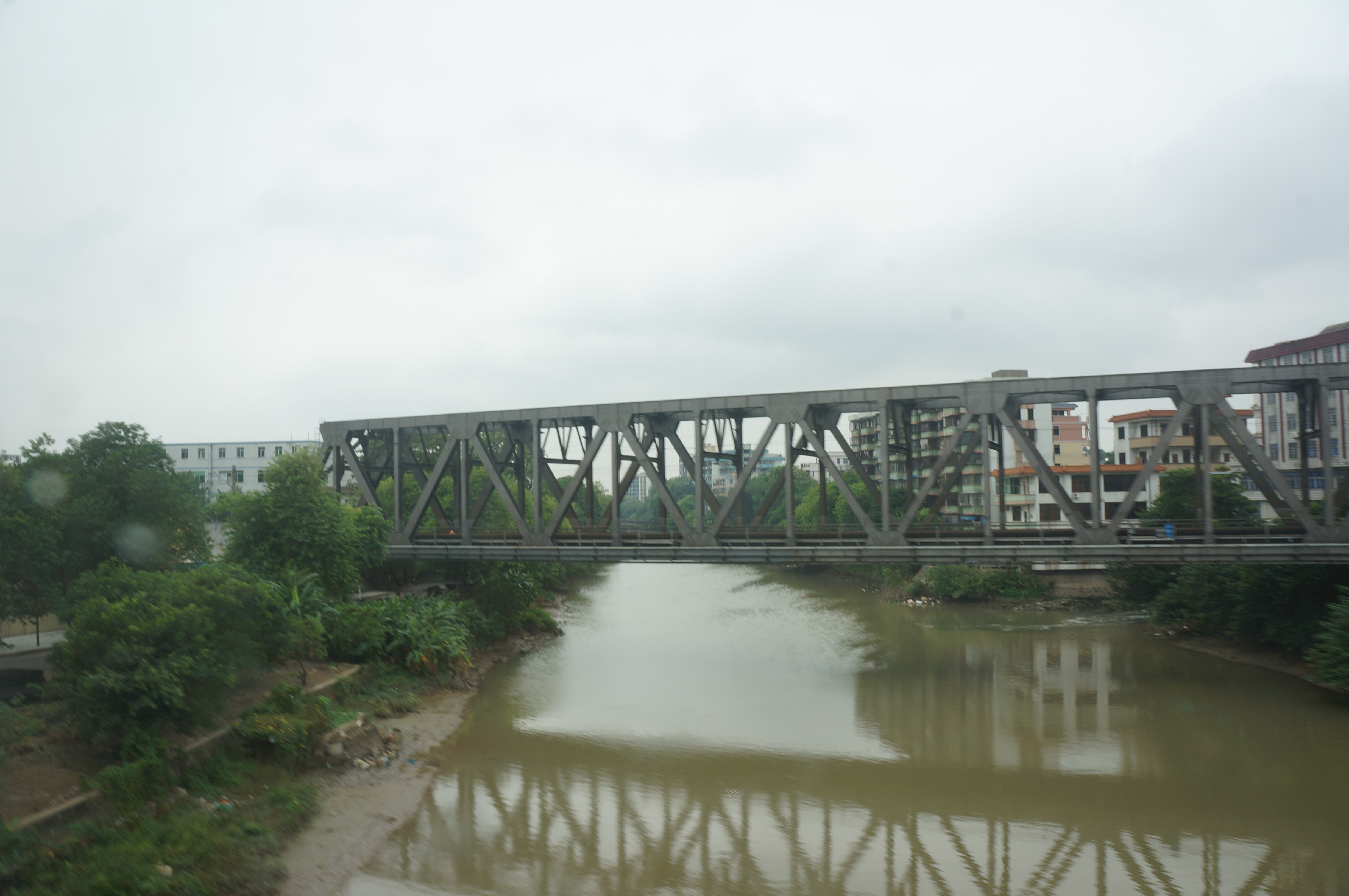 201609 Jiangcun Bridge (North)